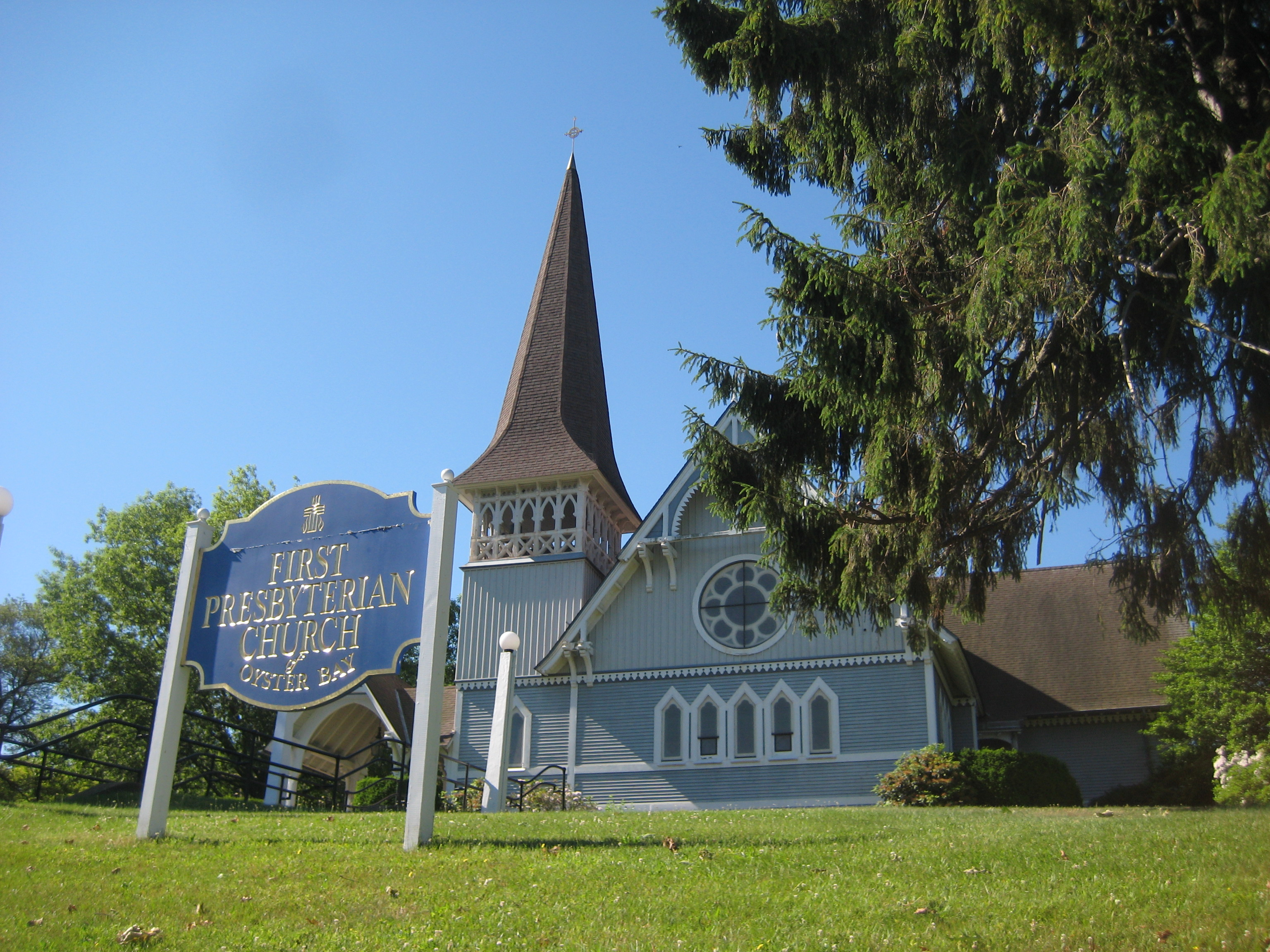 Oyster Bay Presbyterian Church. By Isaac Kremer. June 16, 2008.